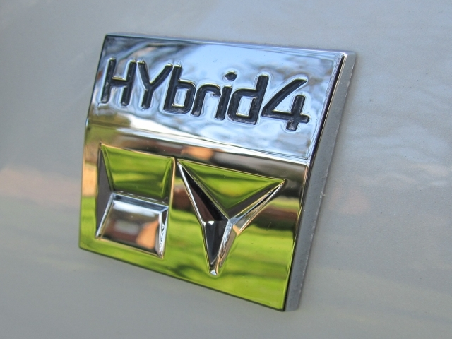 Peugeot HYbrid4 logo